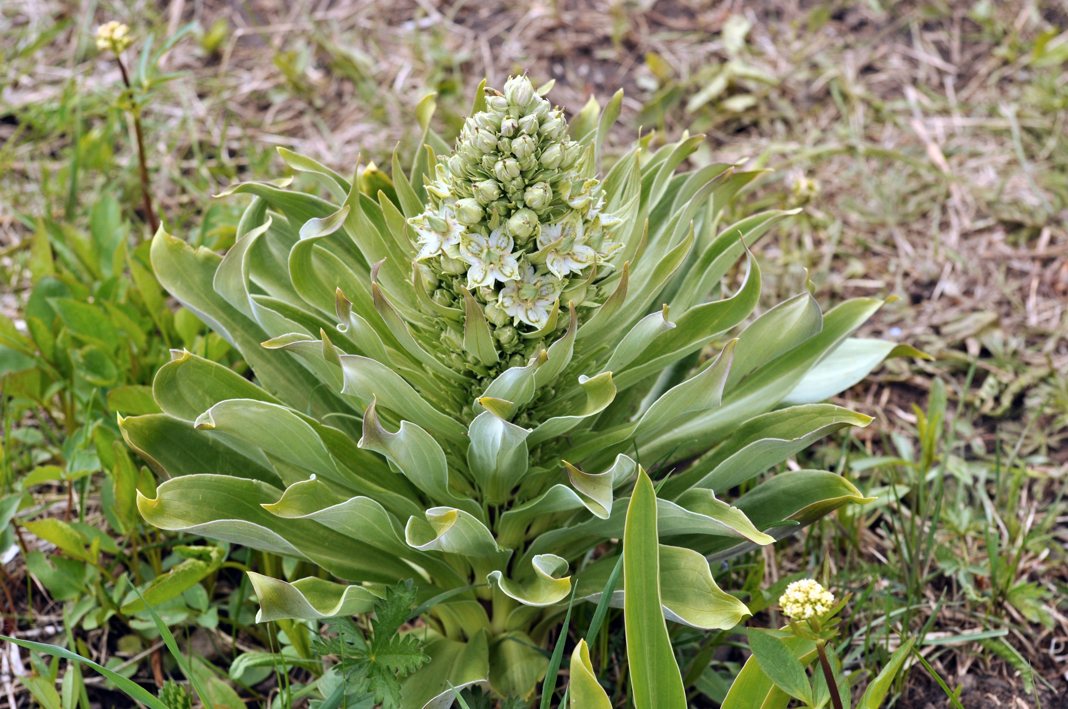 Blooming Green Gentian (Frasera speciosa), near Trout Lake, Yellowstone National Park, June 18, 2011